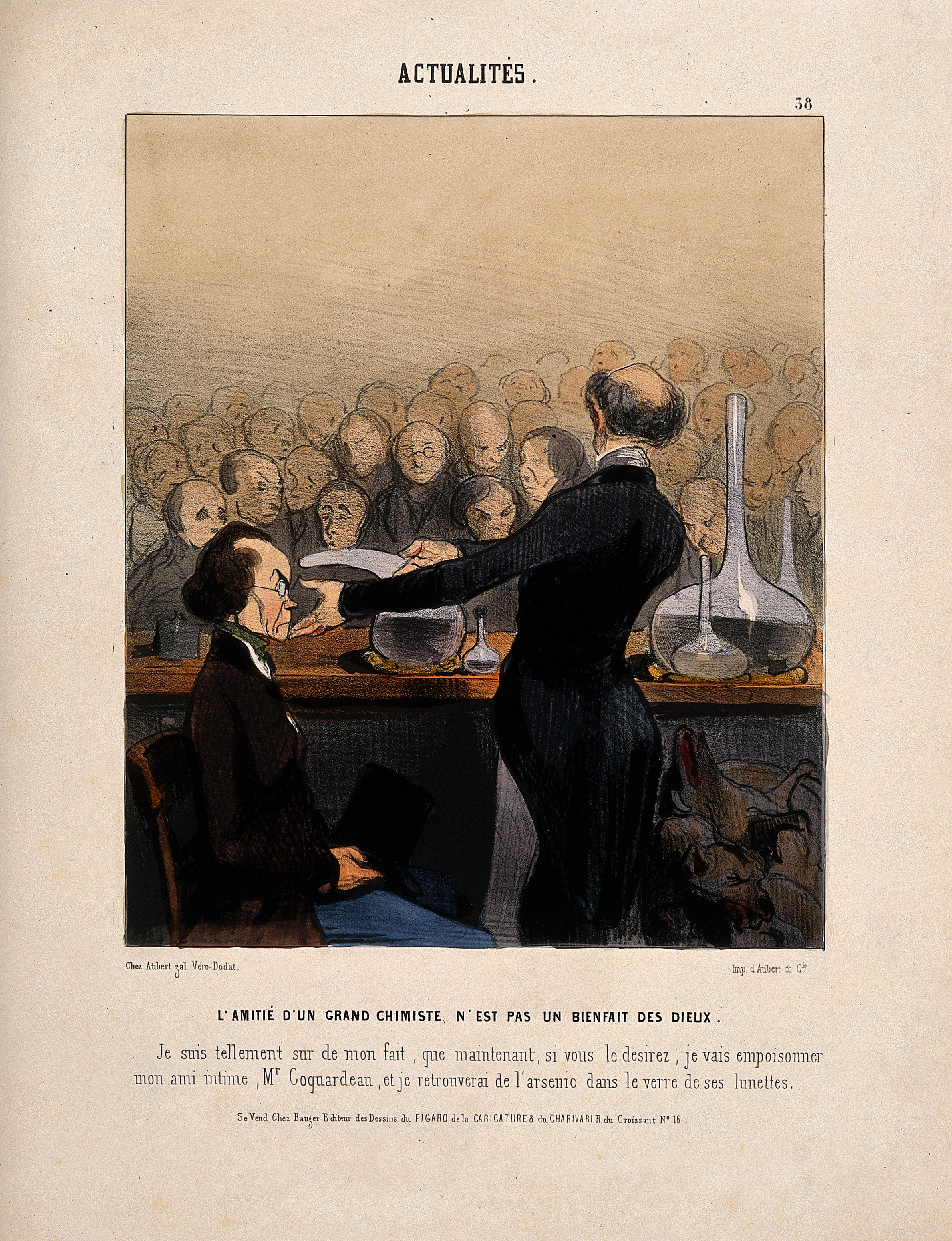 Topic-LCSH: Poisoning. Chemists -- France. Chemical apparatus. Medicine bottles. Chemistry -- History. Science -- Social aspects -- France. Lectures and lecturing Audiences. Science -- Moral and ethical aspects. Arsenic. Friendship. Genre/Technique: Caricatures. Lithographs.